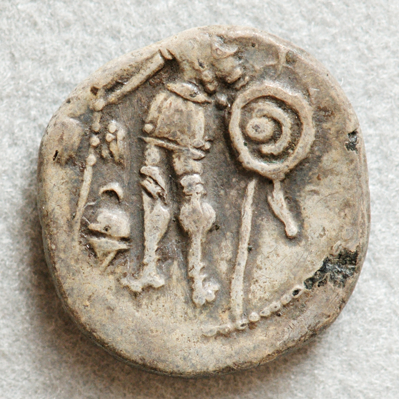 Gaulish coin from Auvergne, France.